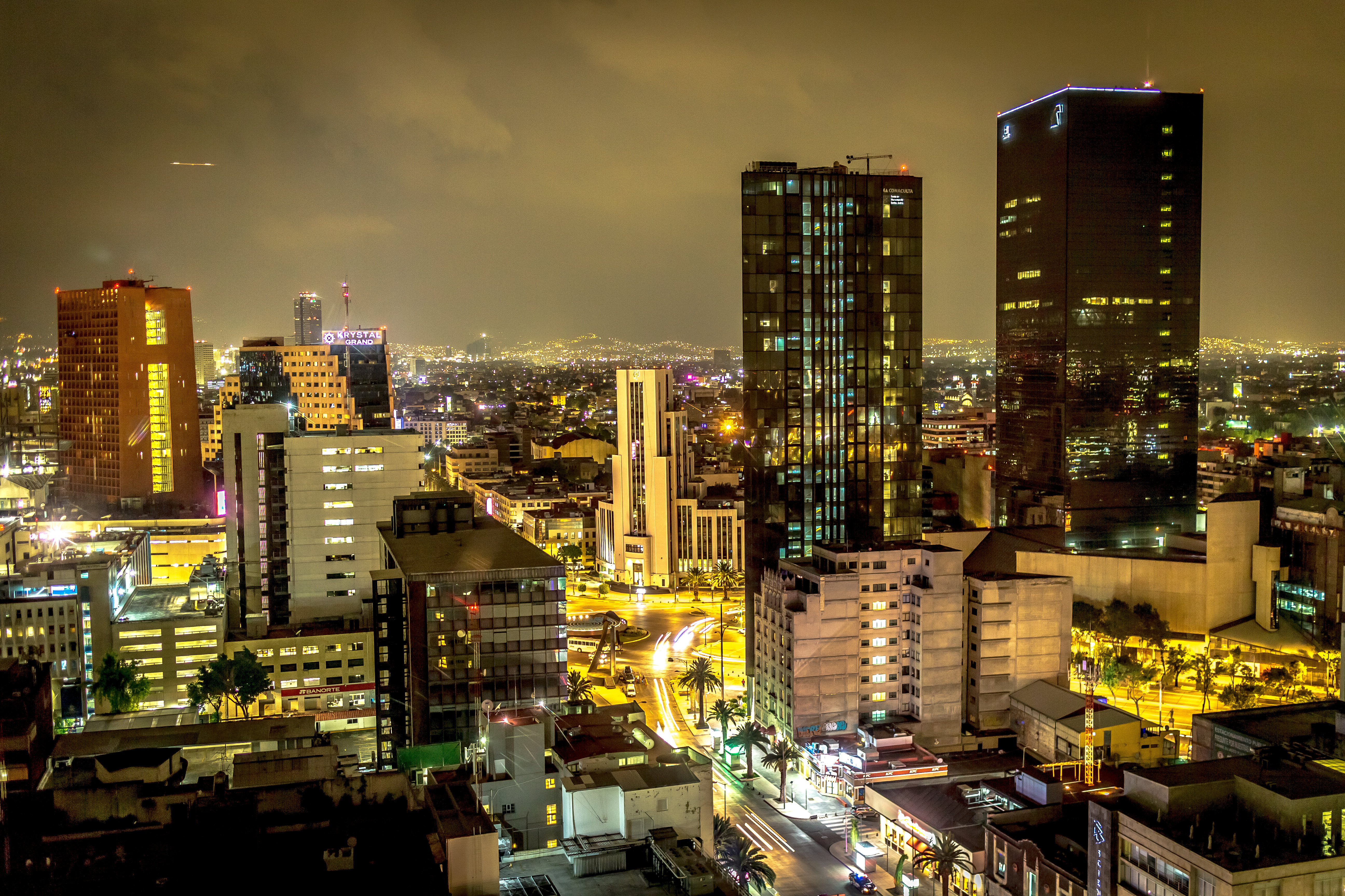 Mexico City at Night during Wikimania 2015